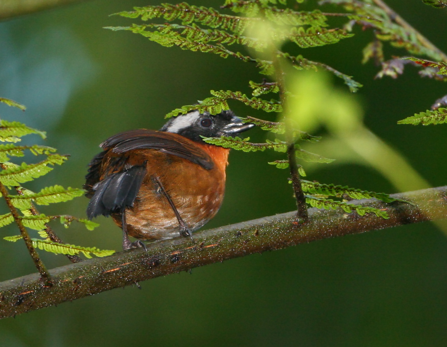 A Tanager finch, (Oreothraupis arremonops), head of Tanadayapa Valley, Ecuador